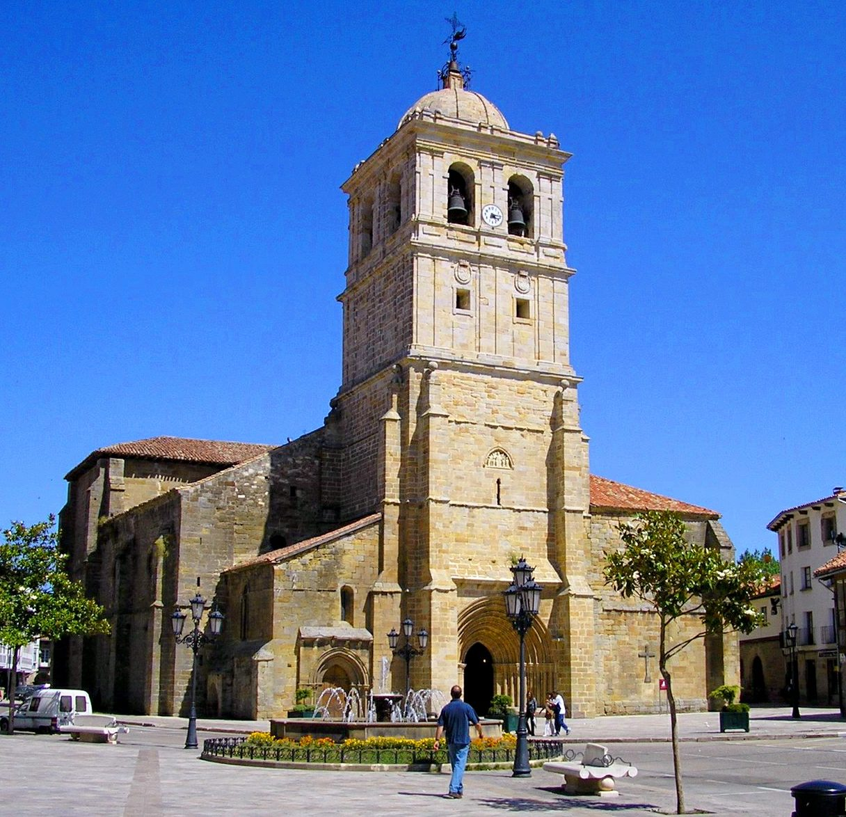 La Colegiata de San Miguel en Aguilar de Campoo